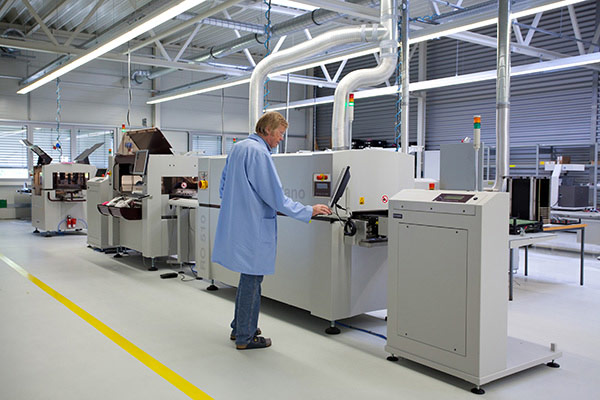 SMT printed circuit boards assembly - SMD assembly and SMD soldering by means of fully automated SMD assembly line